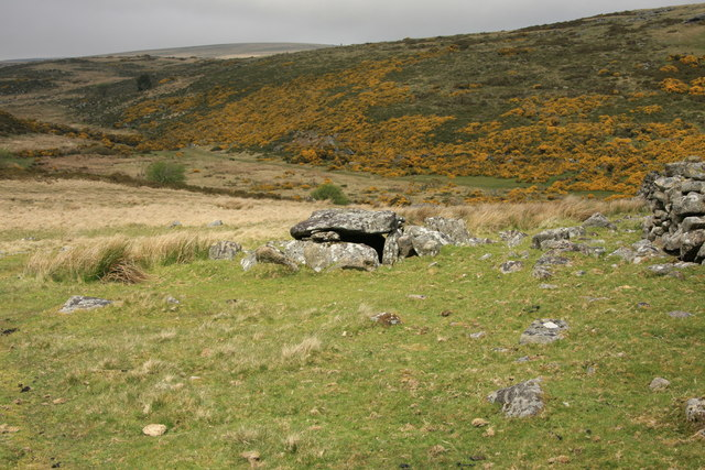 Cist at Roundy Park Settlement An unusually large cist having seven side slabs instead of the usual four and two covering slabs.